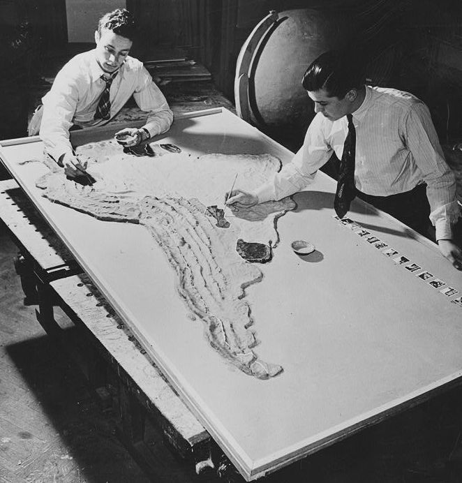 two mens work at a relief of south america; Library of Congress Prints & Photographs Division Washington, DC 20540 Public Domain